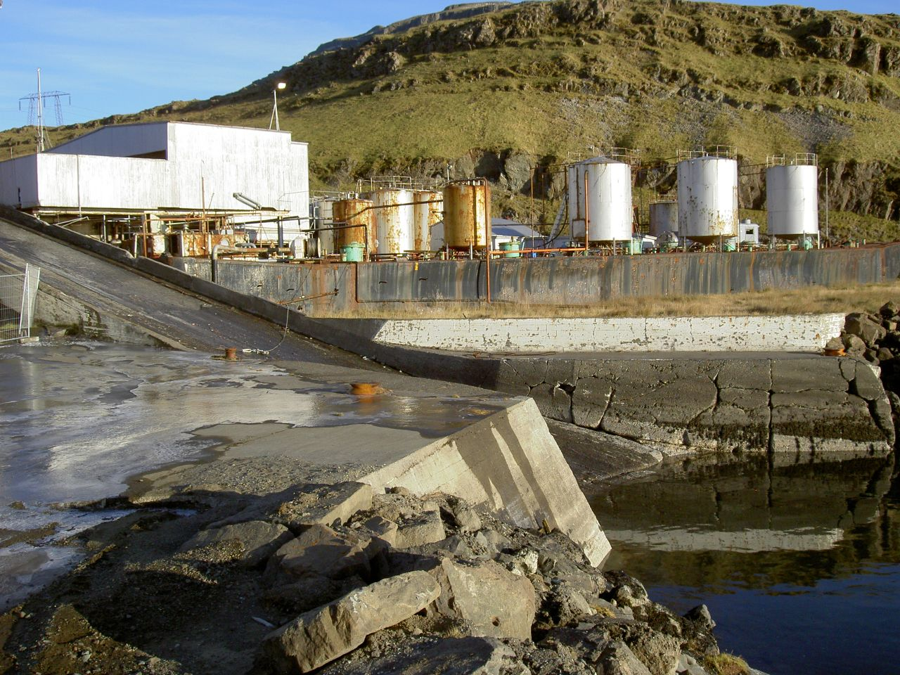 Whale processing plantHvalur hf. Akranes / Hvalfjordur Iceland. Processing plant for the production of meal and oil from whales. Partly using geothermal energy.